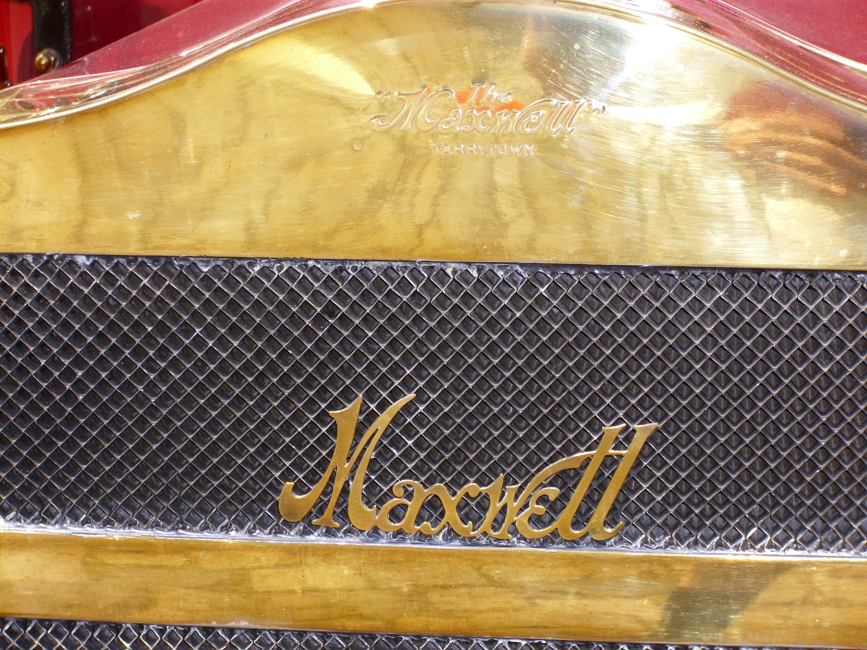 Emblem Maxwell